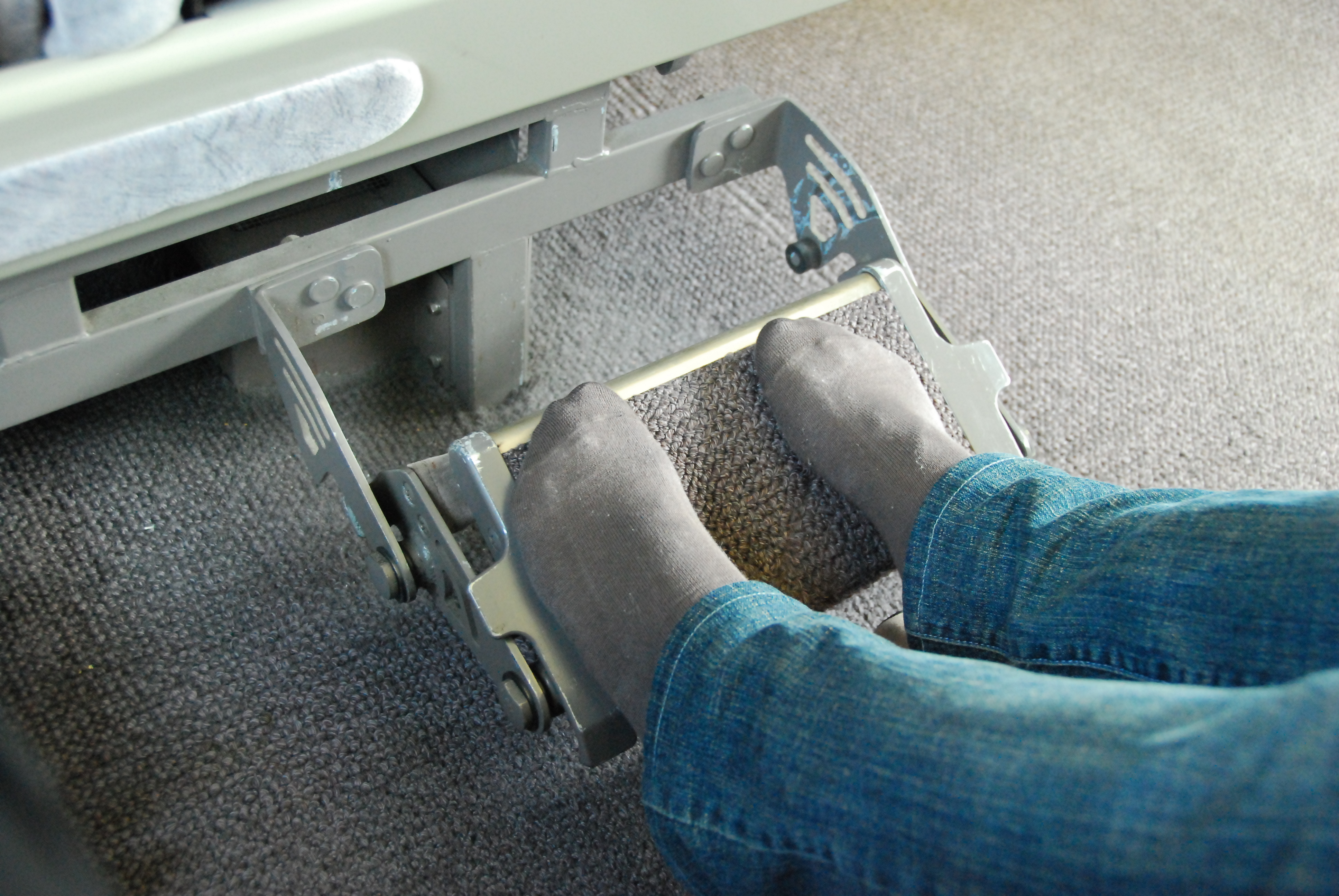 Koyuki relaxing on the Shinkansen